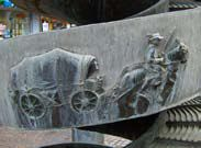 Weitere Abbildungen auf dem Historienbrunnen